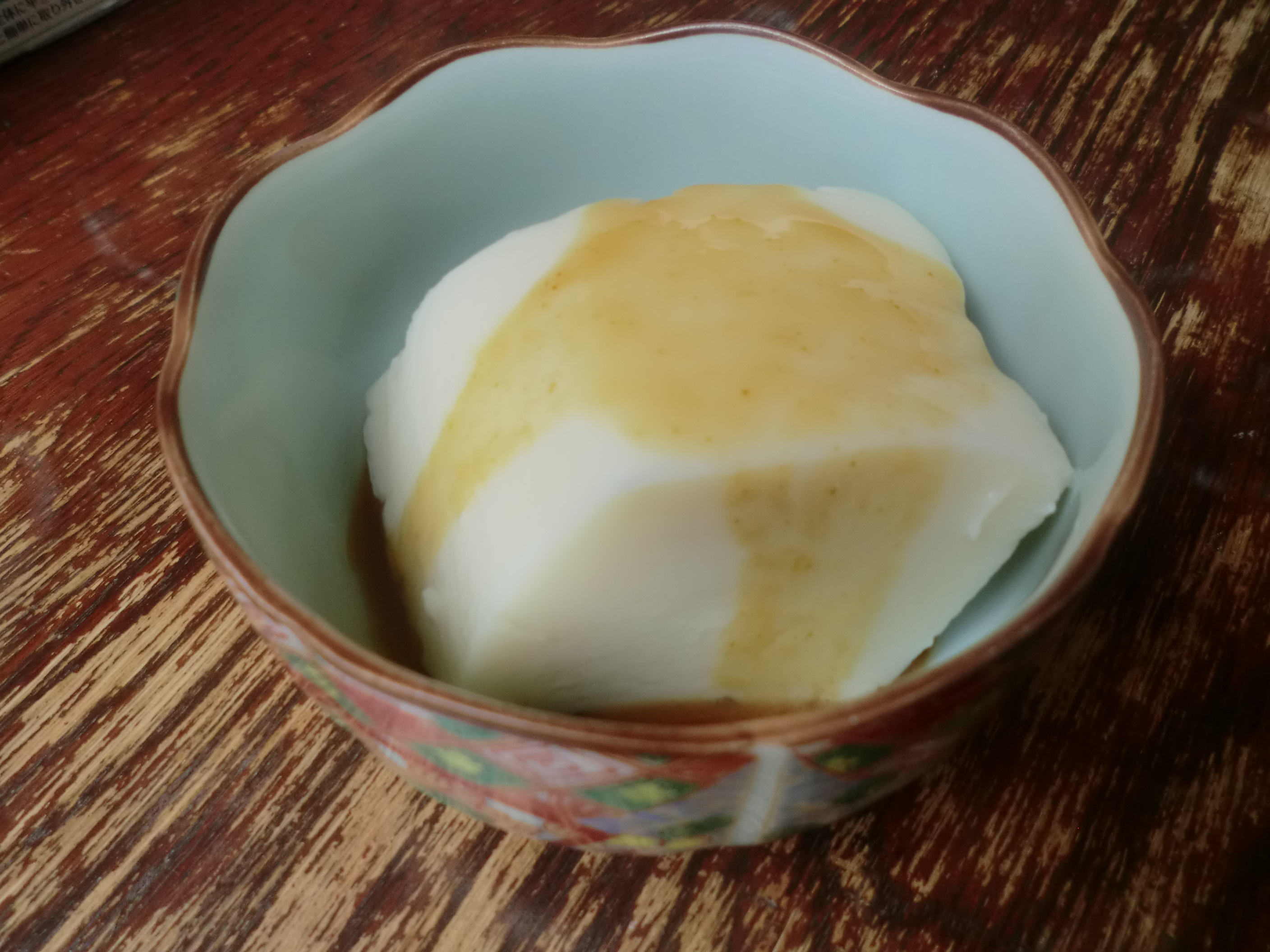 "Godofu",a kind of tofu famous in Saga and Nagasaki prefecture.